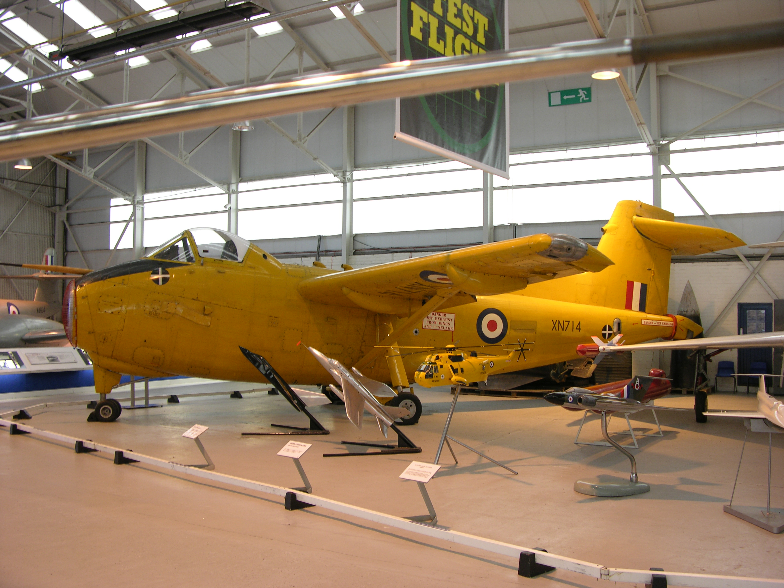 Preserved for posterity at the RAF Museum, Cosford